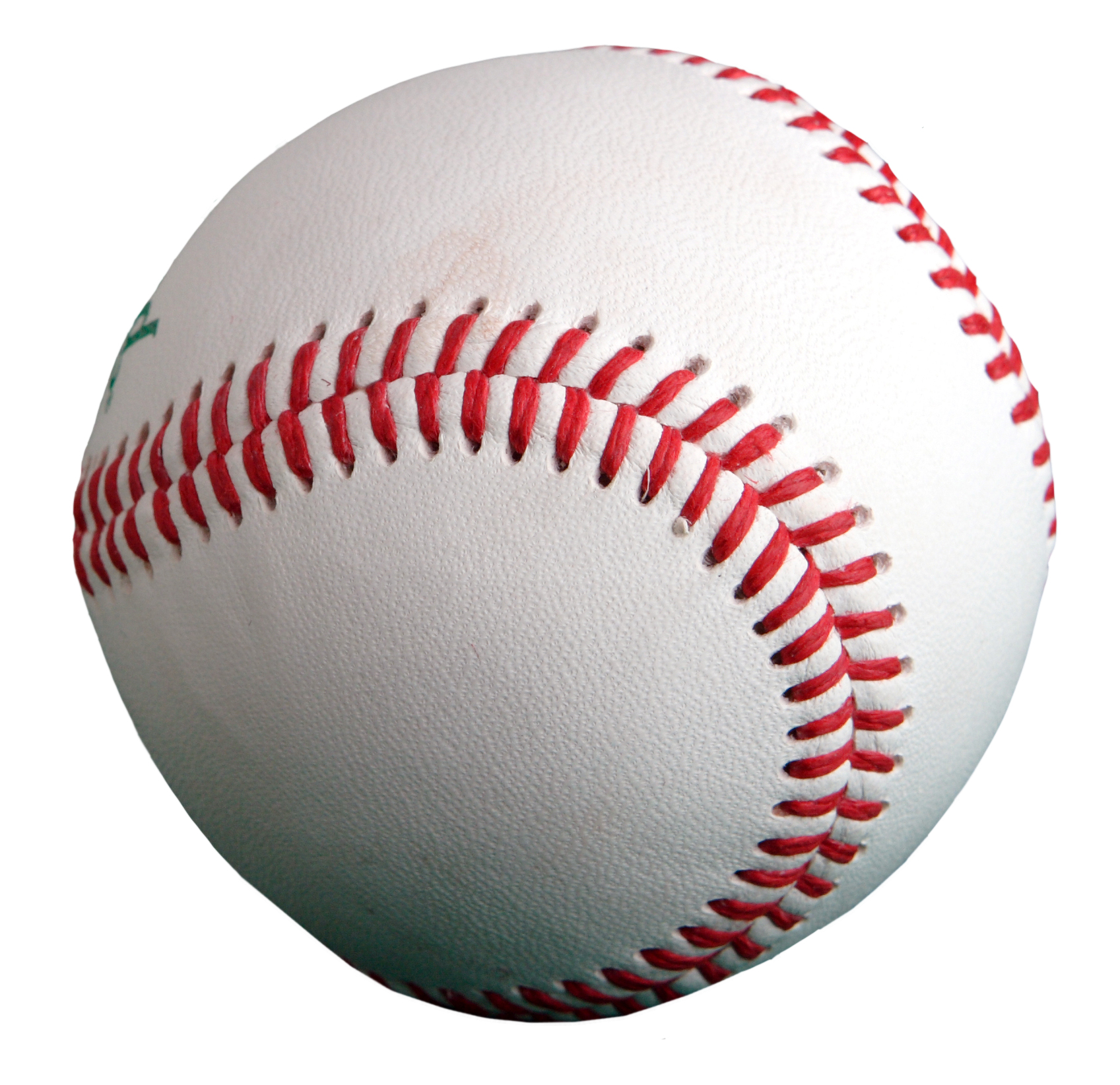 A baseball, cropped from Image:Baseball.jpg